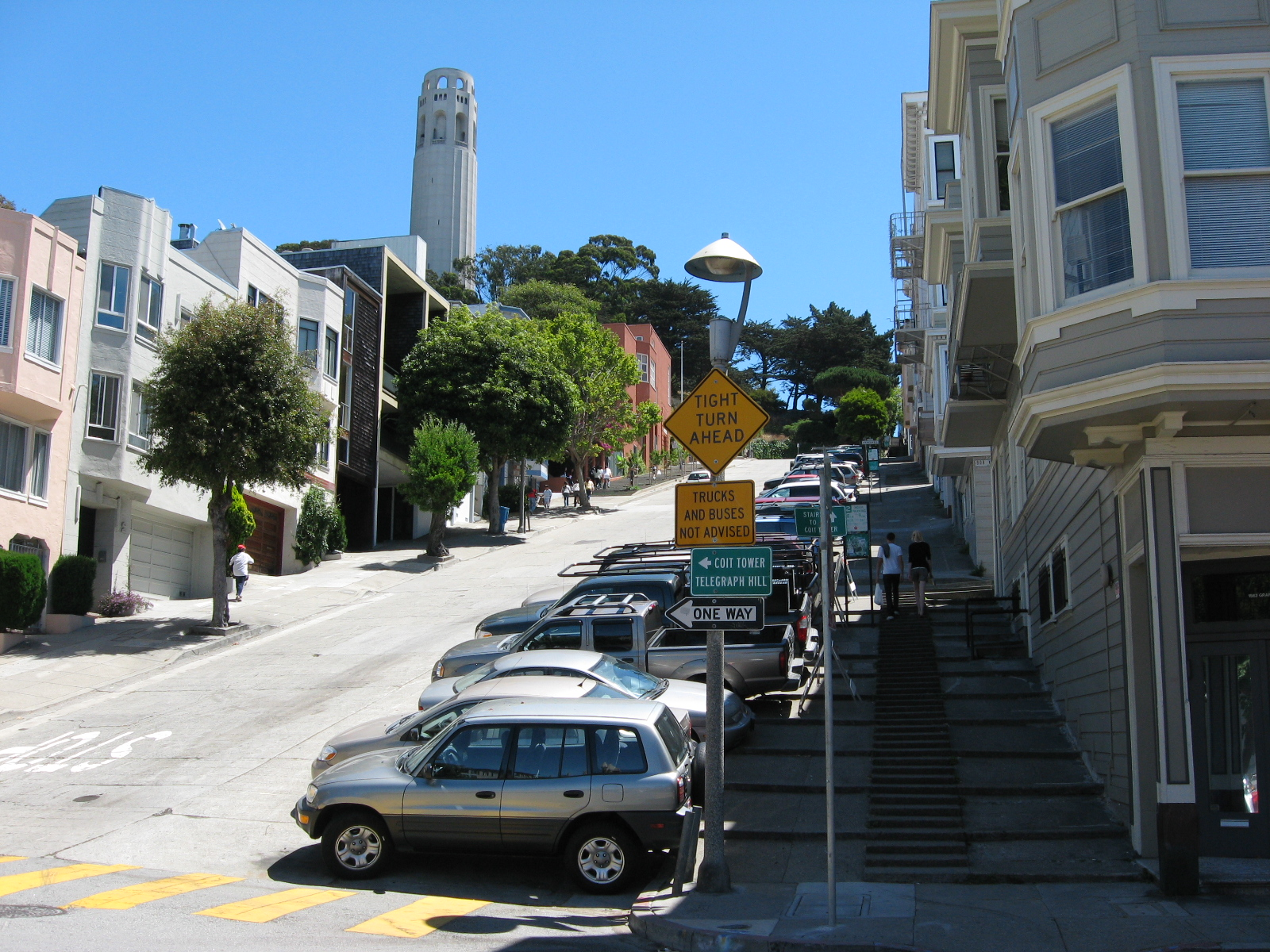 Filbert Street and Grant Avenue, looking towards Coit Tower and Garfield Elementary school. Original date image generated was July 13, 2007.